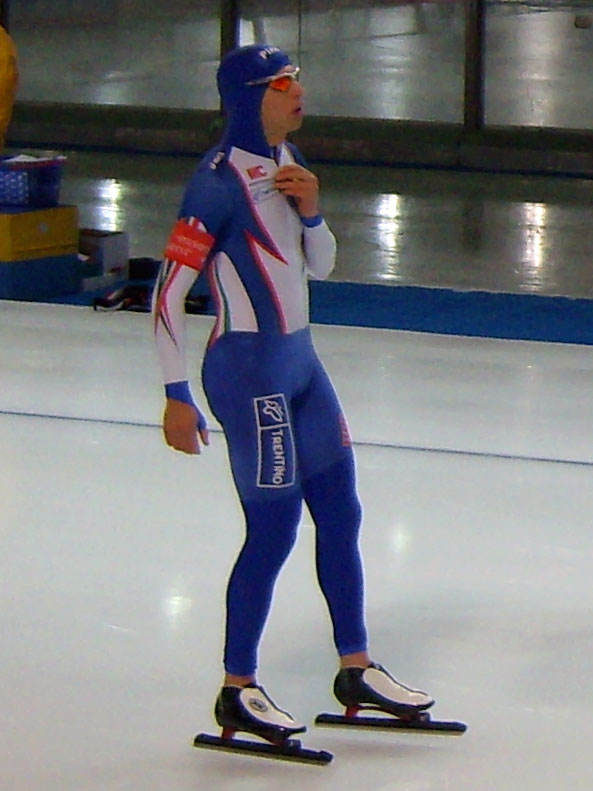 Matteo Anesi (ITA) befor 8 rounds Team pursuit world cup speedskating race in Berlin, Germany.